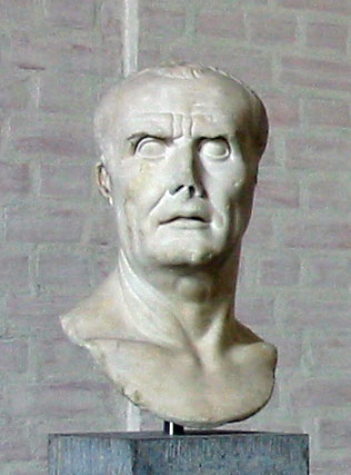 Bust of Gaius Marius in the Munich, Germany Glyptothek. Photograph by J. Williams.